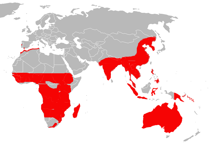 Turnicidae Distribution map